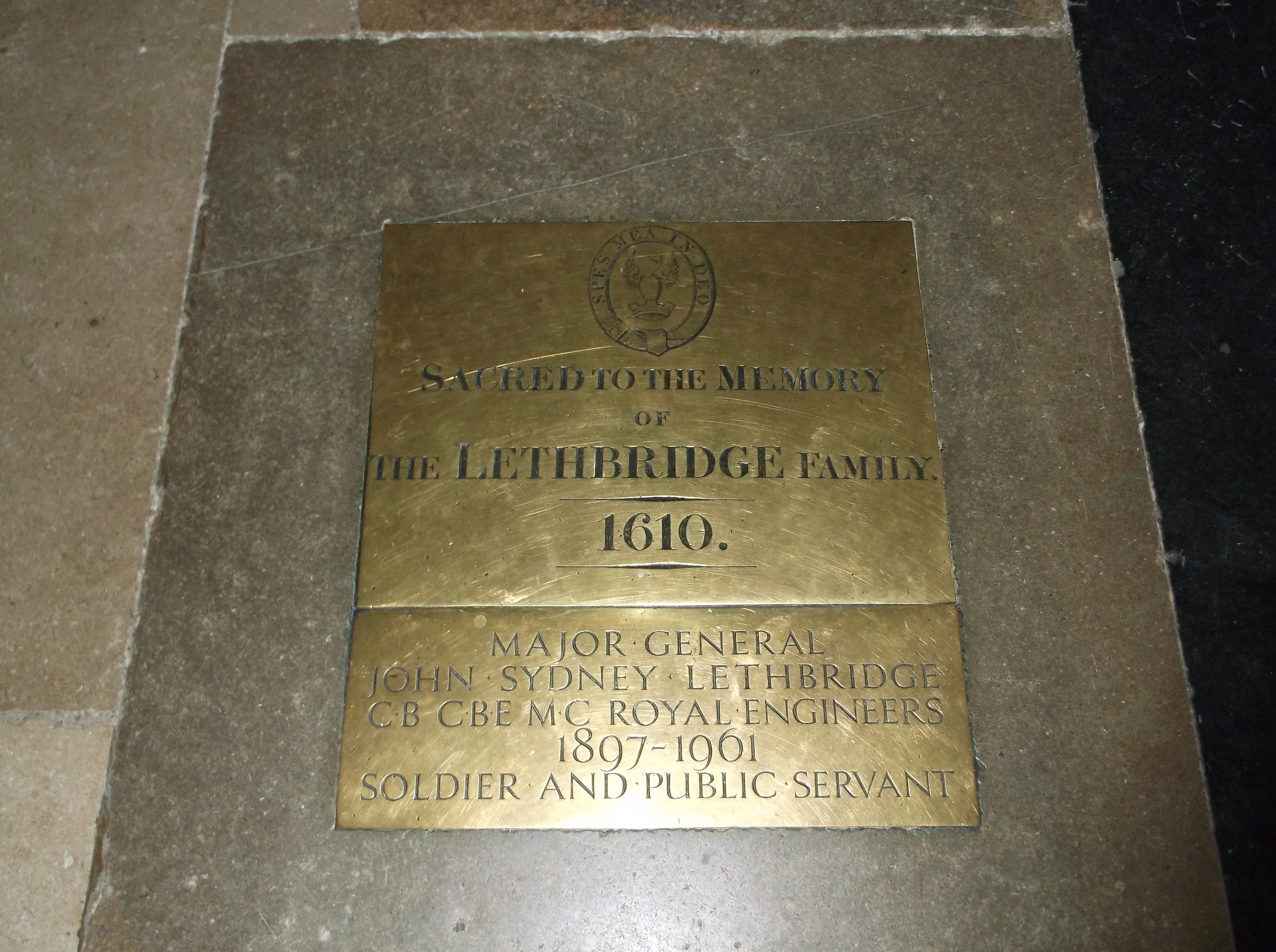 Memorial to the Lethbridge family, Exeter Cathedral, including Major General John Sydney Lethbridge, Cb, CBE, MC, Royal Engineers (1897 - 1961), "soldier and public servant".